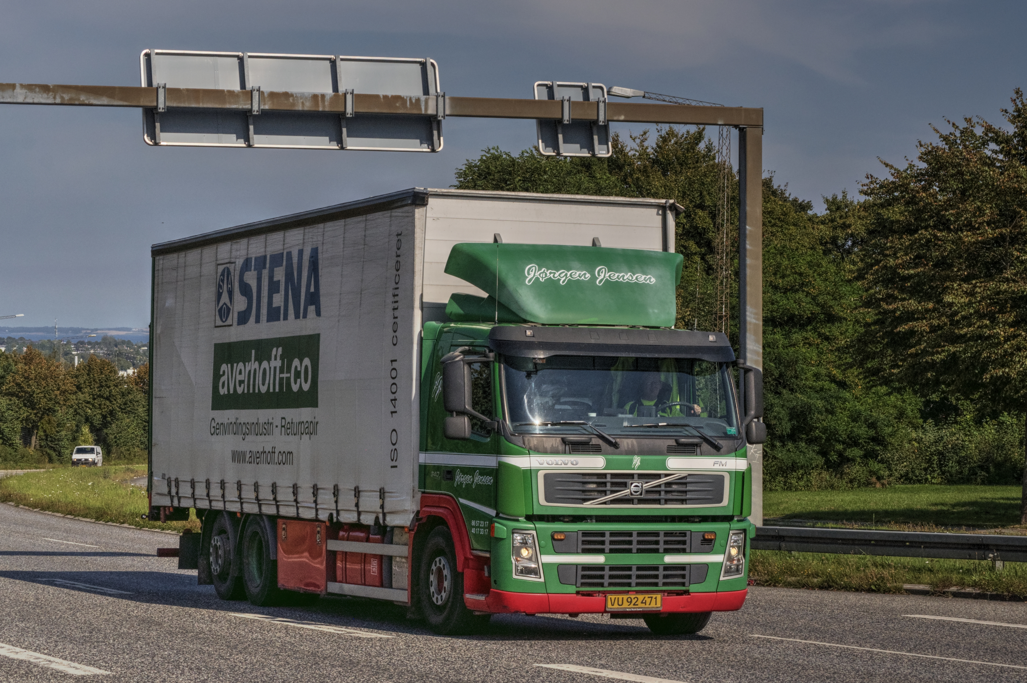 Model: Volvo FM 340 6X2 VIN: YV2JL60C68A659172 1. Registration: 2008-03-17 Company: Jørgen Jensen, Skanderborg (DK) for Stena Averhoff + Co. Fleet No.: - Nickname: - License plates: VU92471 (mar. 2008-?) Previous reg.: n/a Later reg.: n/a Retirement age: still active at time of upload (2017) Photo location: Grenåvej by Vejlby Centervej, Risskov, Aarhus, DK This location offers some breathtaking views in clear weather. From the top of this long hill you can see across the Aarhus bay to Djursland (if you turn slightly to the right in this position), or you can look down the road where the truck is coming from and see Egå, Skæring and Studstrup far below. It's no wonder that this hill turns into a nightmare in case of snowfall. Grenåvej itself is one of the main roads into Aarhus when approaching from the north along the coastline. Retirement age for trucks: many used trucks are offered for sale on international markets. If sold to a foreign buyer, this will not be listed in the danish motor registry, so a "retired" truck may or may not have been exported. In other words, the "retirement age" only shows the age, at which the truck stopped running on danish license plates.